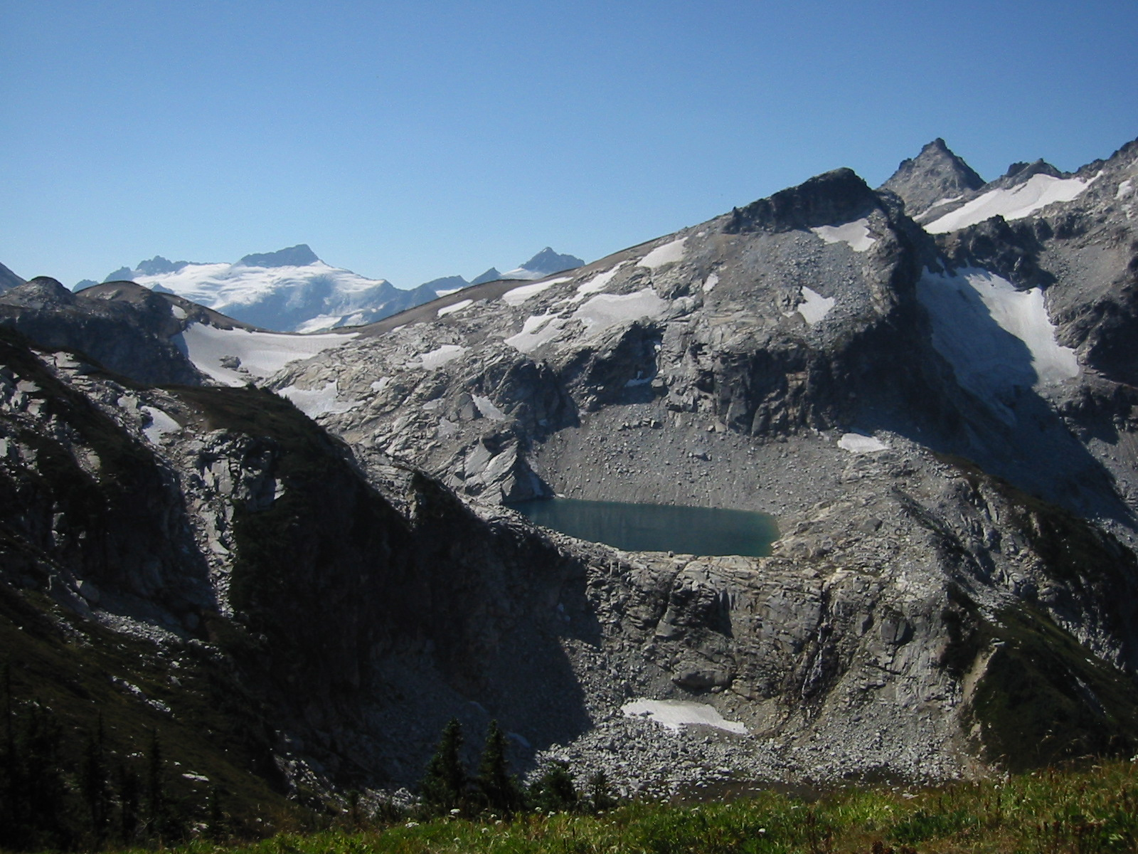 Triad Lake Clark Mountain 8602 feet, 6520+ feet, Napeequa Peak 8073 feet (l to r)